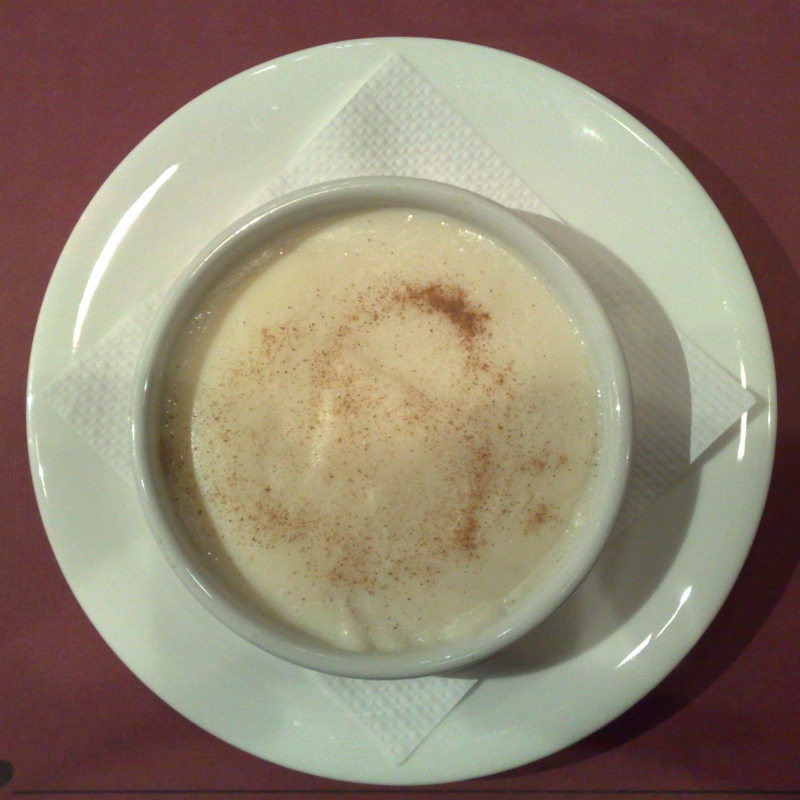 Menjablanc